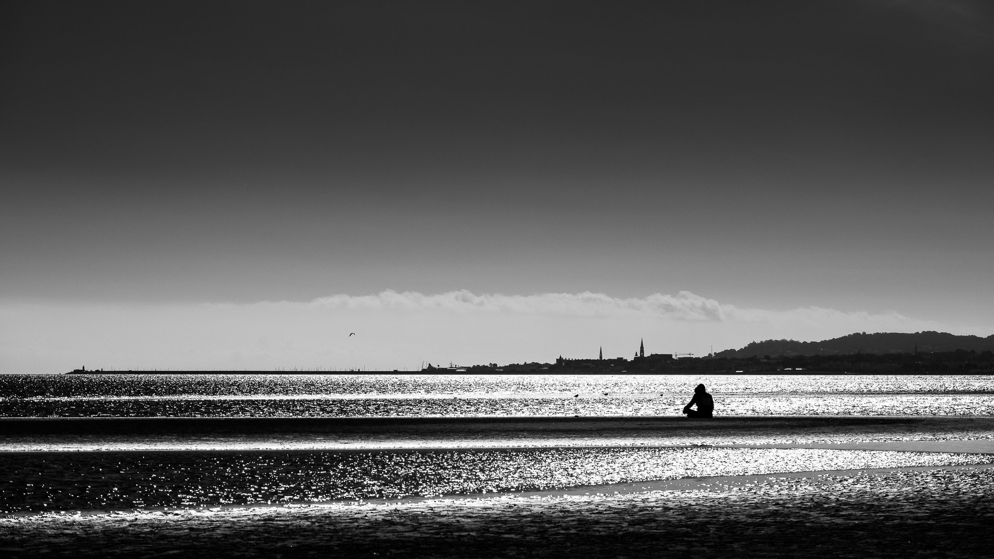 500px provided description: Check out my gallery at if you want to see more pictures. You can follow me on [#sky ,#city ,#sea ,#street ,#contrast ,#bw ,#light ,#clouds ,#europe ,#urban ,#black and white ,#man ,#white ,#photo ,#black ,#photography ,#blackandwhite ,#ireland ,#candid ,#faceless ,#dublin ,#streetphotography]